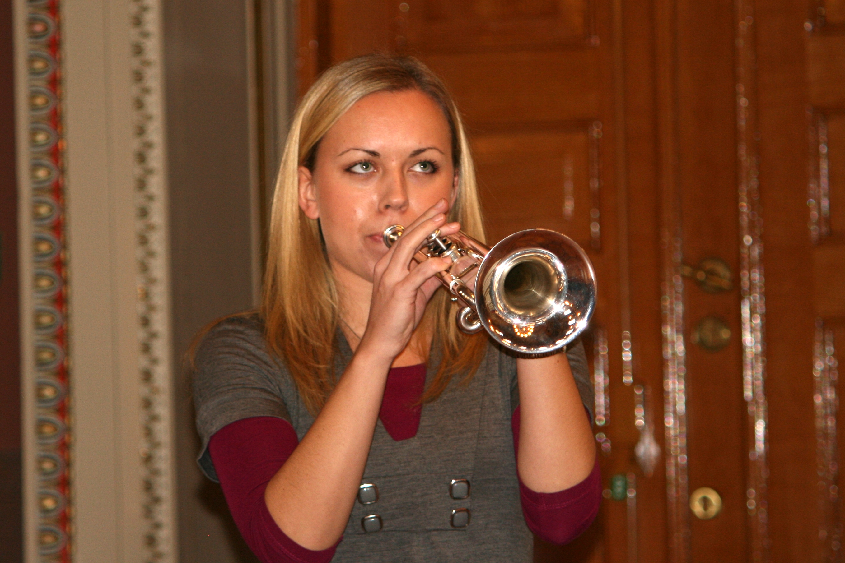 Tine Thing Helseth, Norwegian trumpet soloist